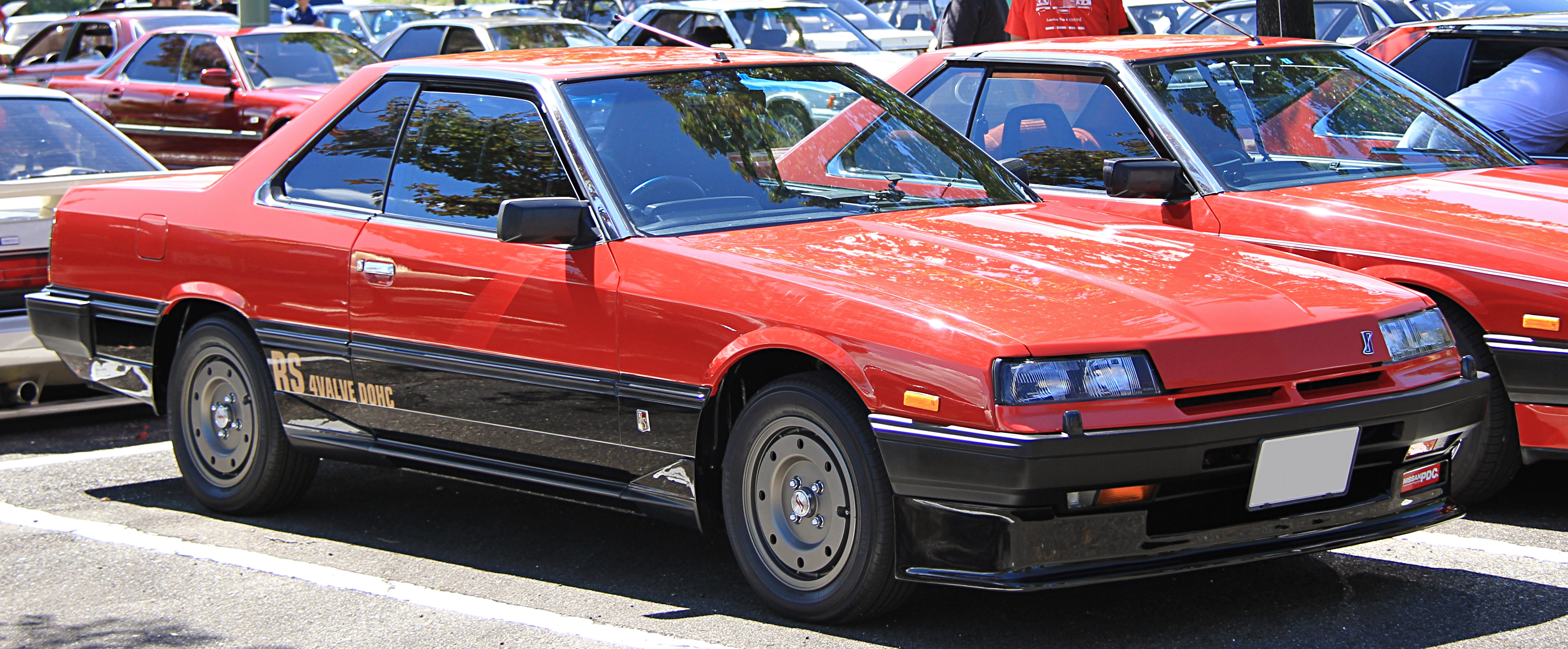 Nissan Skyline